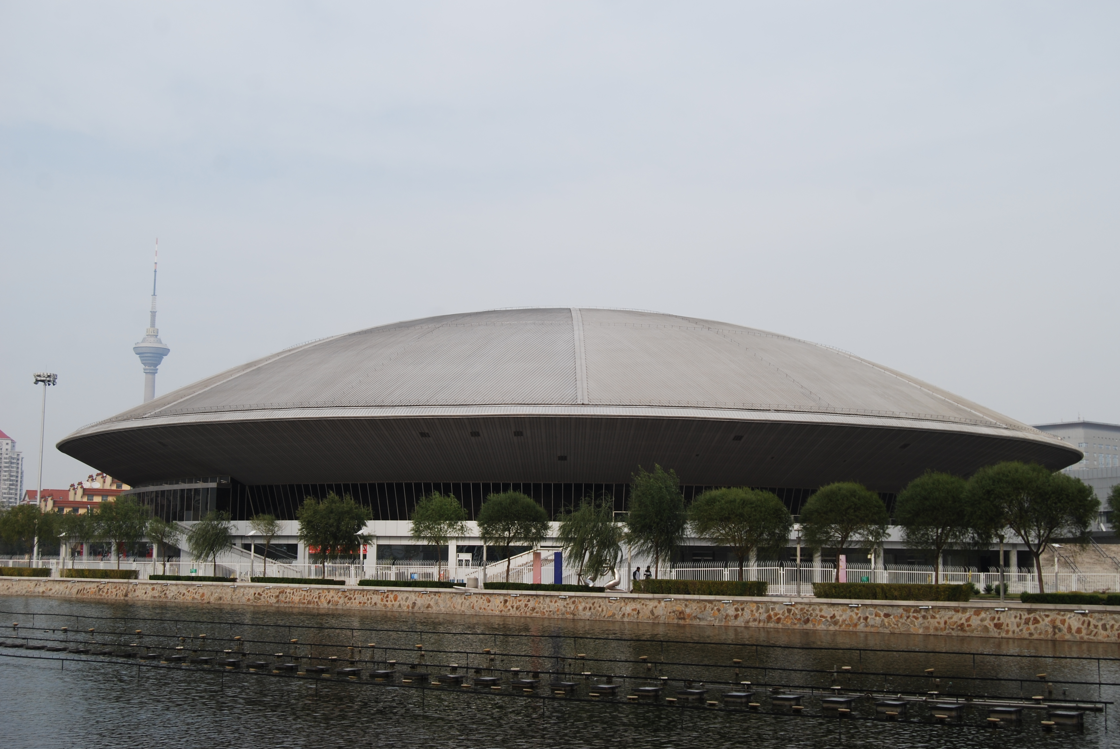 Tianjin Sports Centre